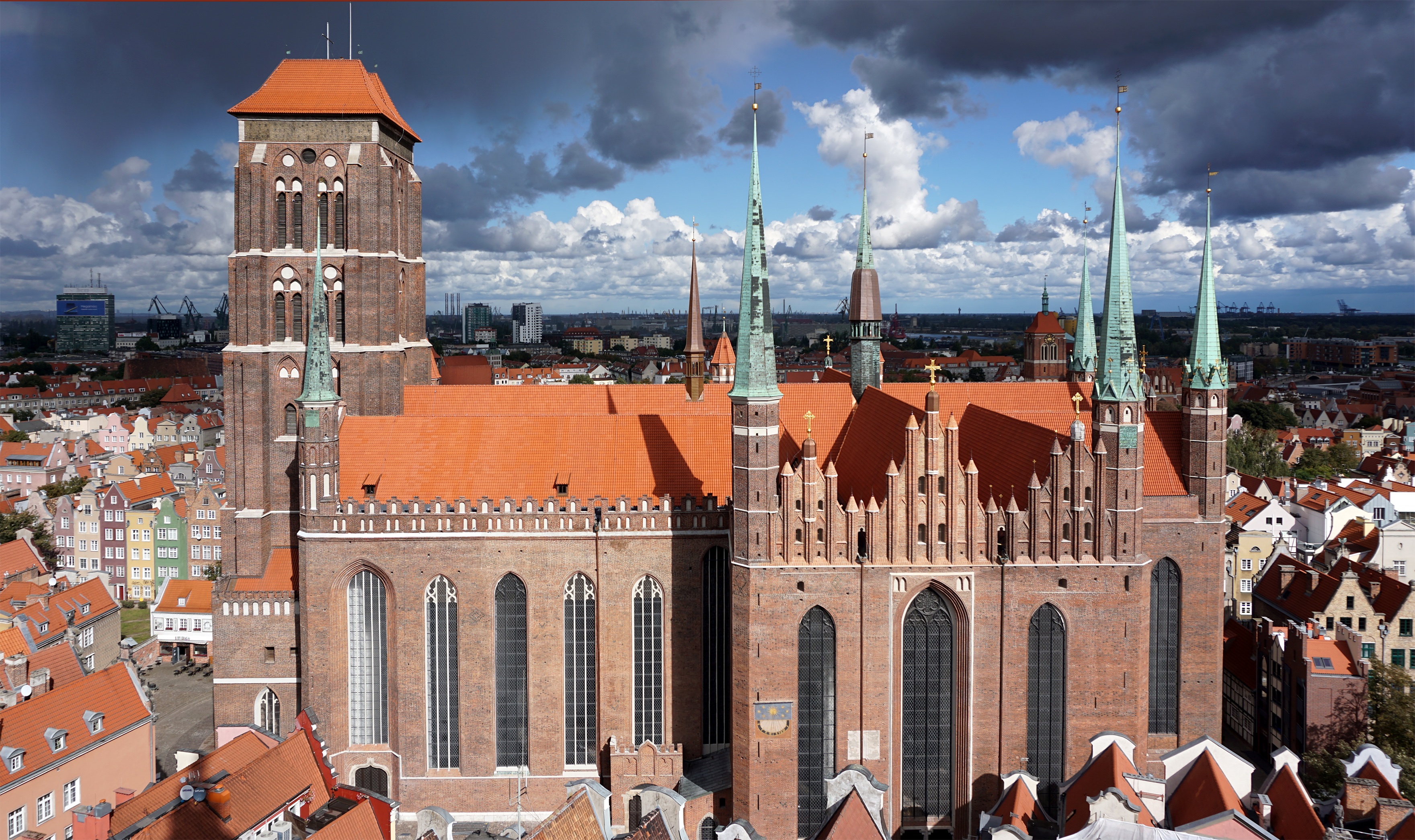 Bazylika Mariacka w Gdańsku